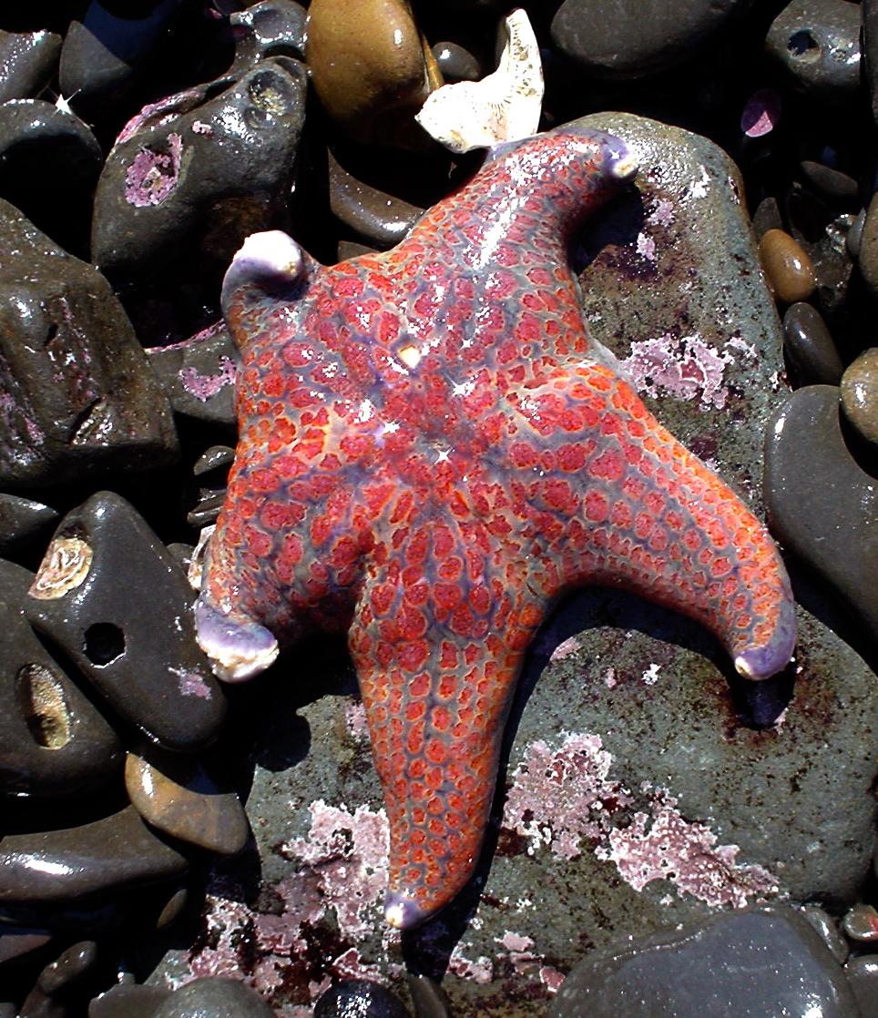 Leather sea star,Dermasterias imbricata in Tidepoosl in California